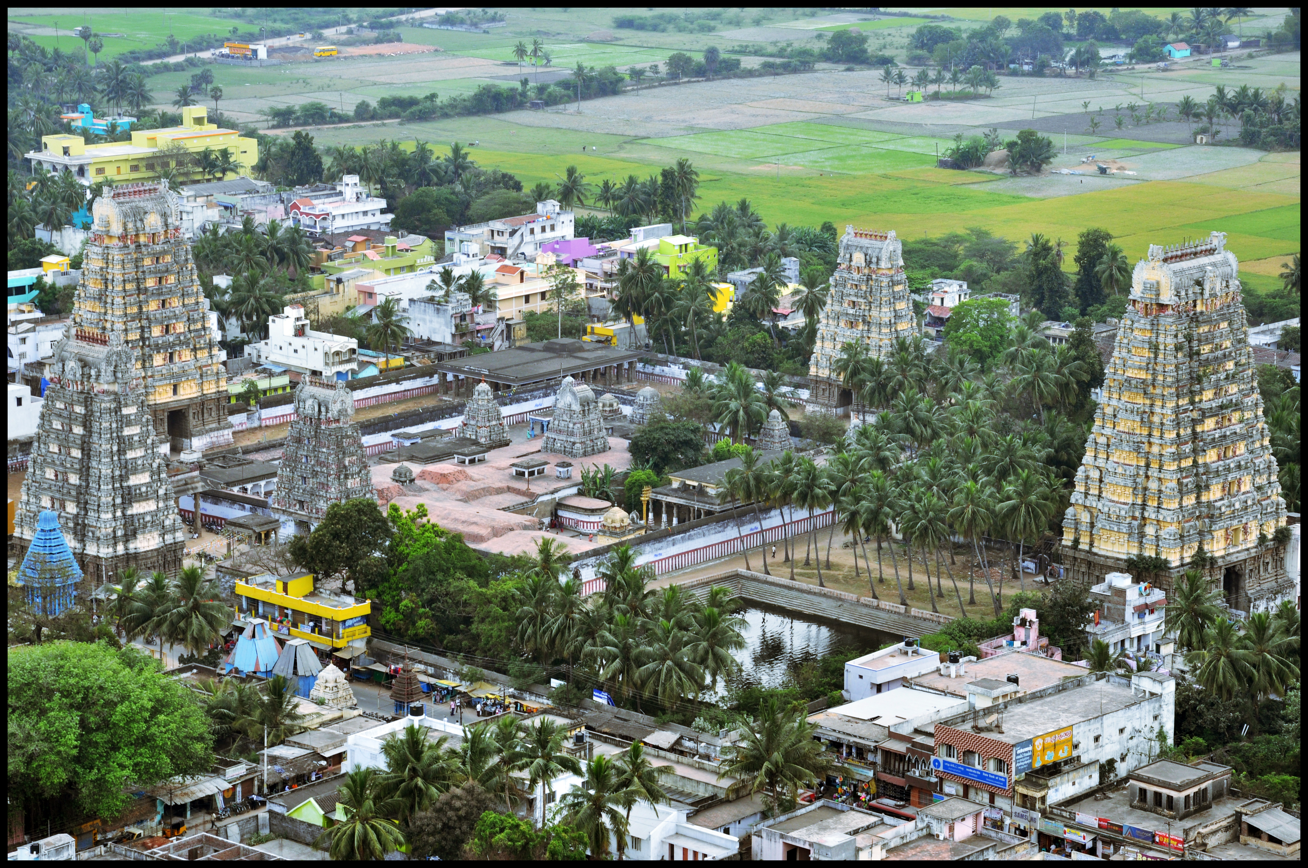 This temples complex covering 12 acres is built on top of a hill - the four hills here representing the Vedas - Vedagiriswarar being Shiva. The Pallava Emperors built it 1300 years ago. At the foot of the hills is the ancient temple of Bhaktavatsalar. The hill temple is associated with the feeding of kites at an appointed time everyday. This temple has been sung by the Saivite Saint Poets. Tirukkazhukunram is about 70 kilometers from Madras. Ancient Hindu temples of India